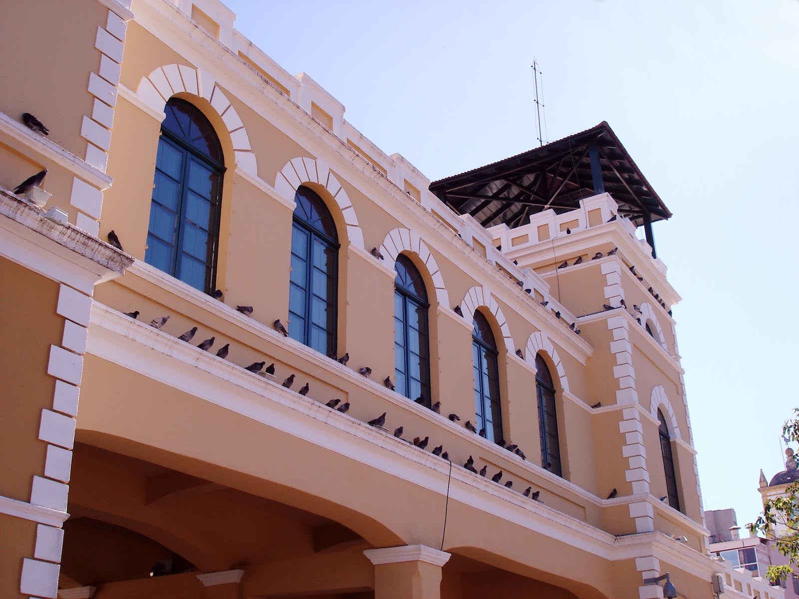 Public market of Florianópolis, Brazil.